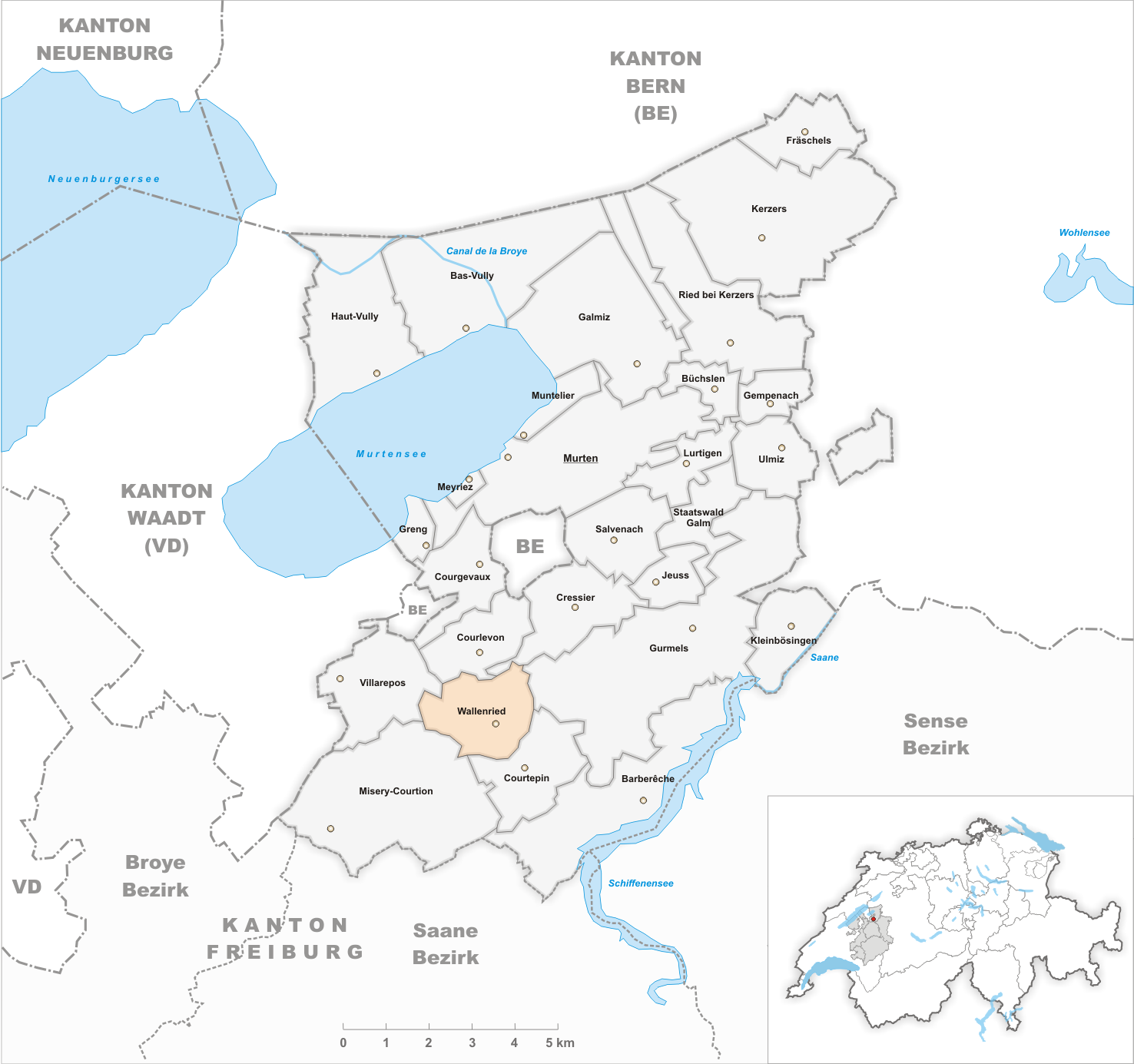 Municipality Wallenried